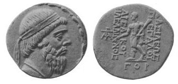 Coin of the Parthian king Mithradates I.